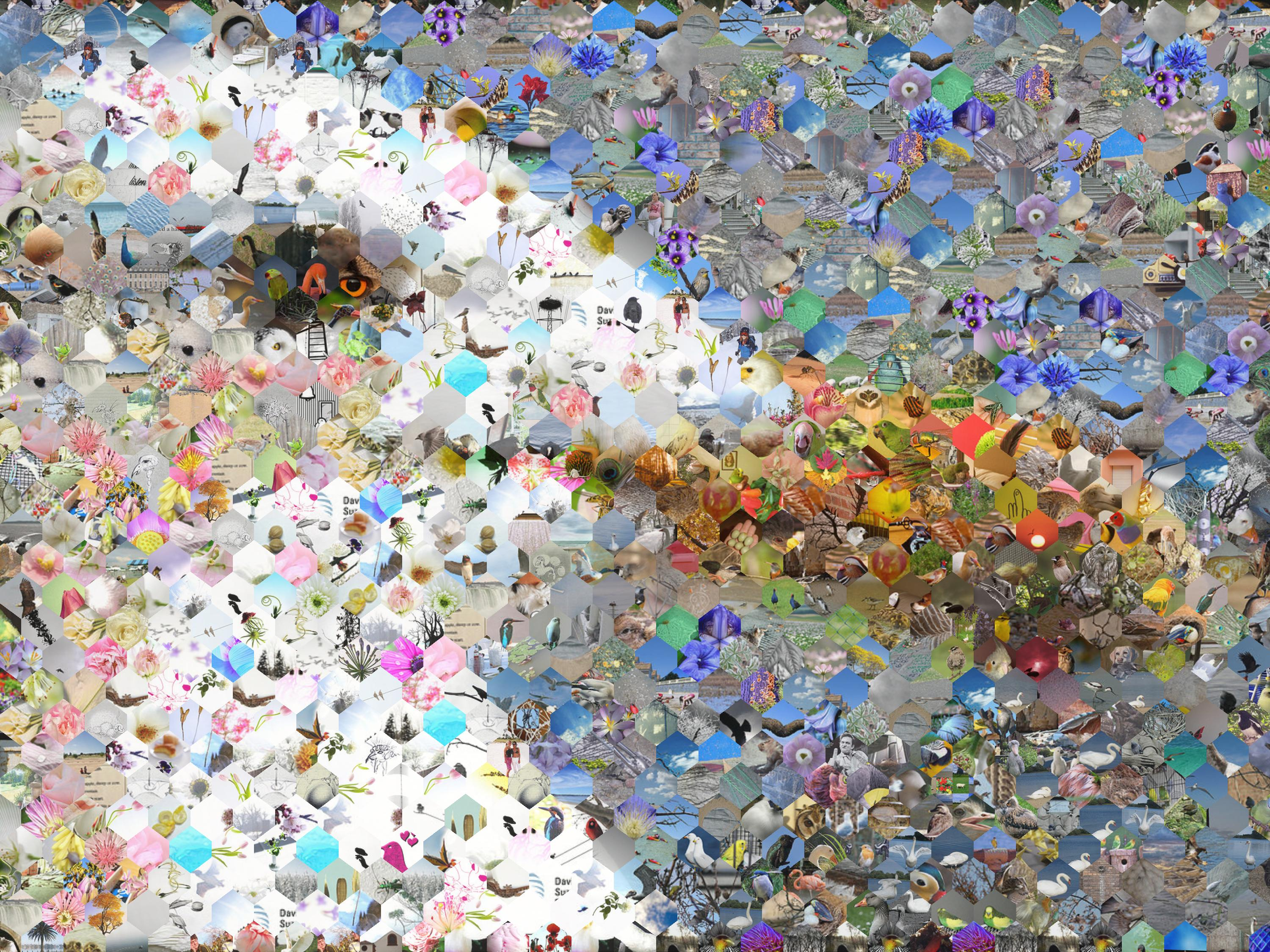 Mosaic of a seagull (using birds and other nature imagery as hexagonal tiles) I made at mosaicr [1]. Mosaic, image details and attributions are at [2][dead link] (Archived copy: [3]) Main image derived from See through you by Steve Jurvetson.